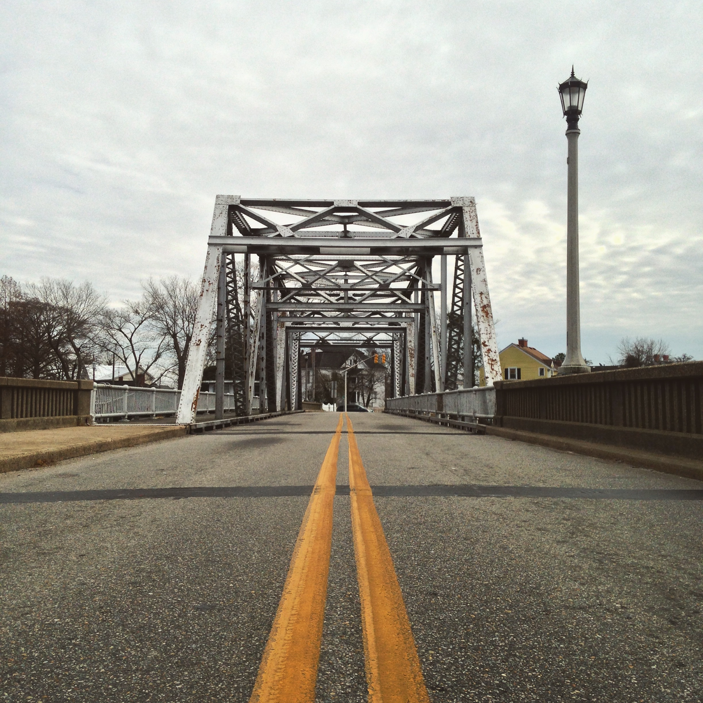 Hertford's famous 'S-Bridge,' the last S-shaped swing bridge in the world